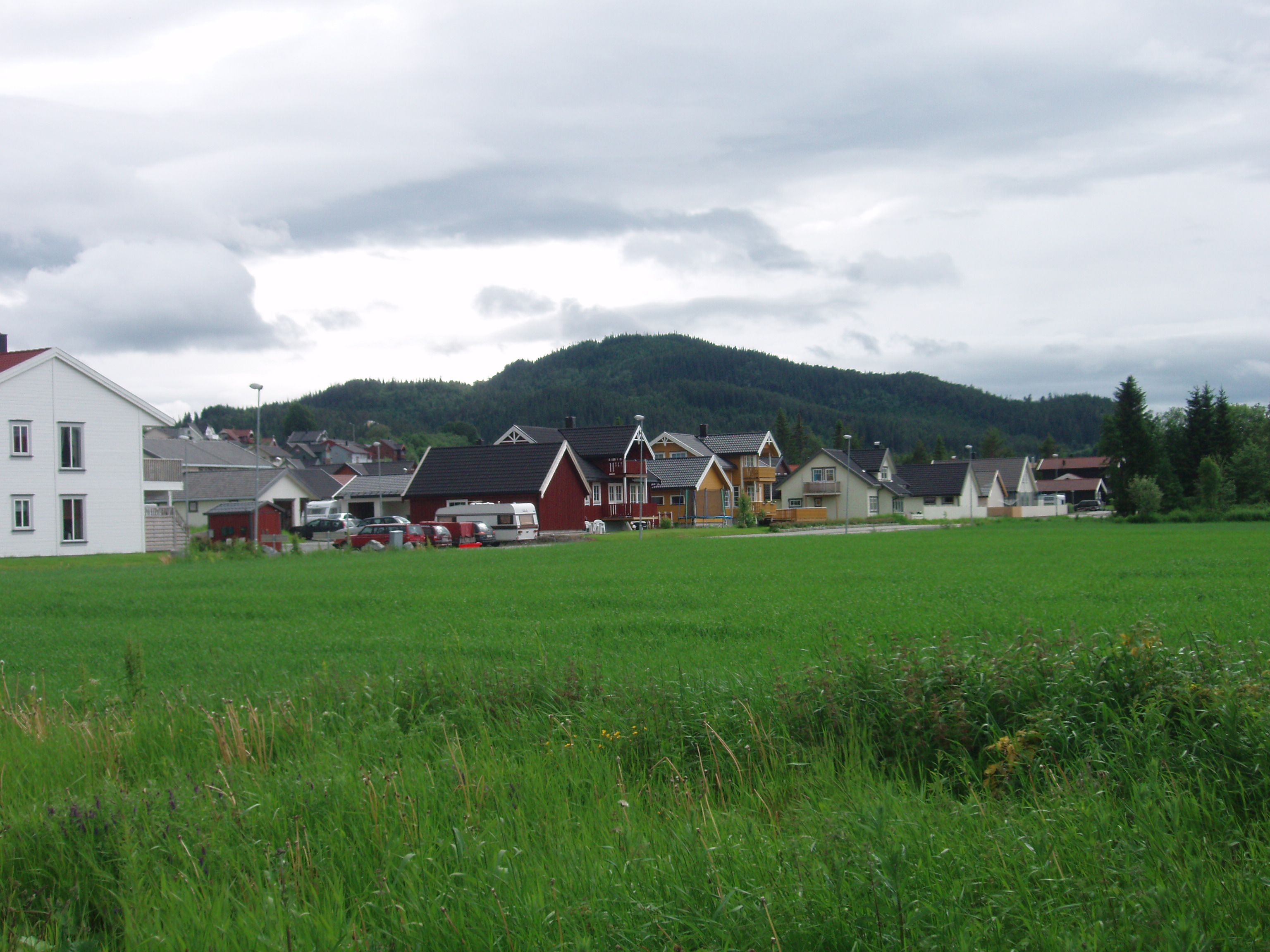 Klemmets veg, a street at Gimse.